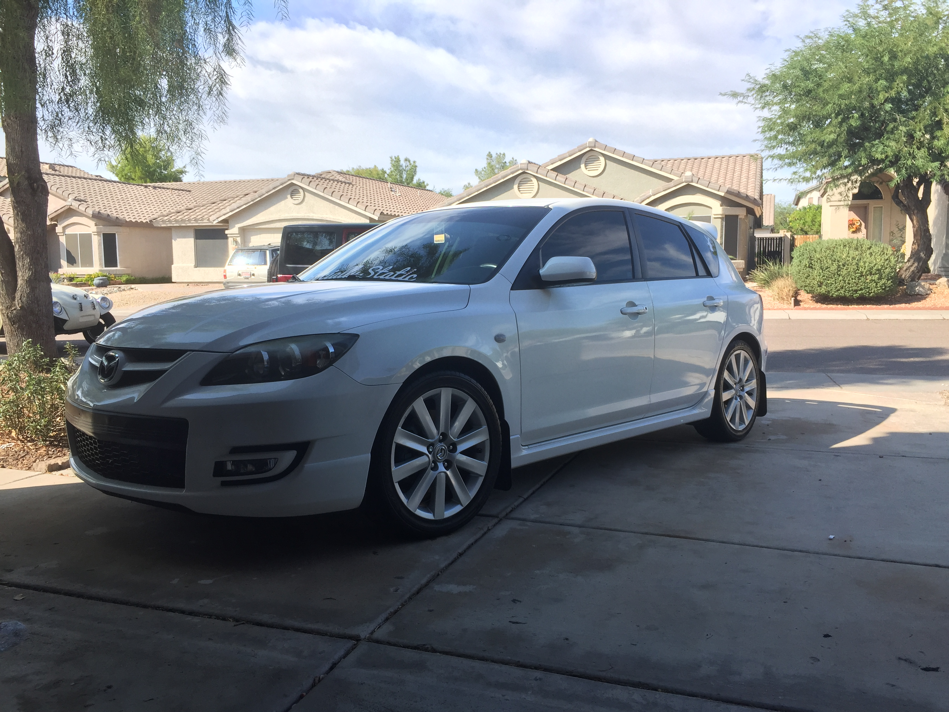 First generation mazdaspeed3 in color code 34K, crystal white pearl.